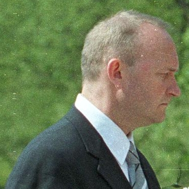 Indulis Bērziņš (then Minister of Foreign Affairs) puts flowers at the Freedom Monument during 4th of May celebrations.